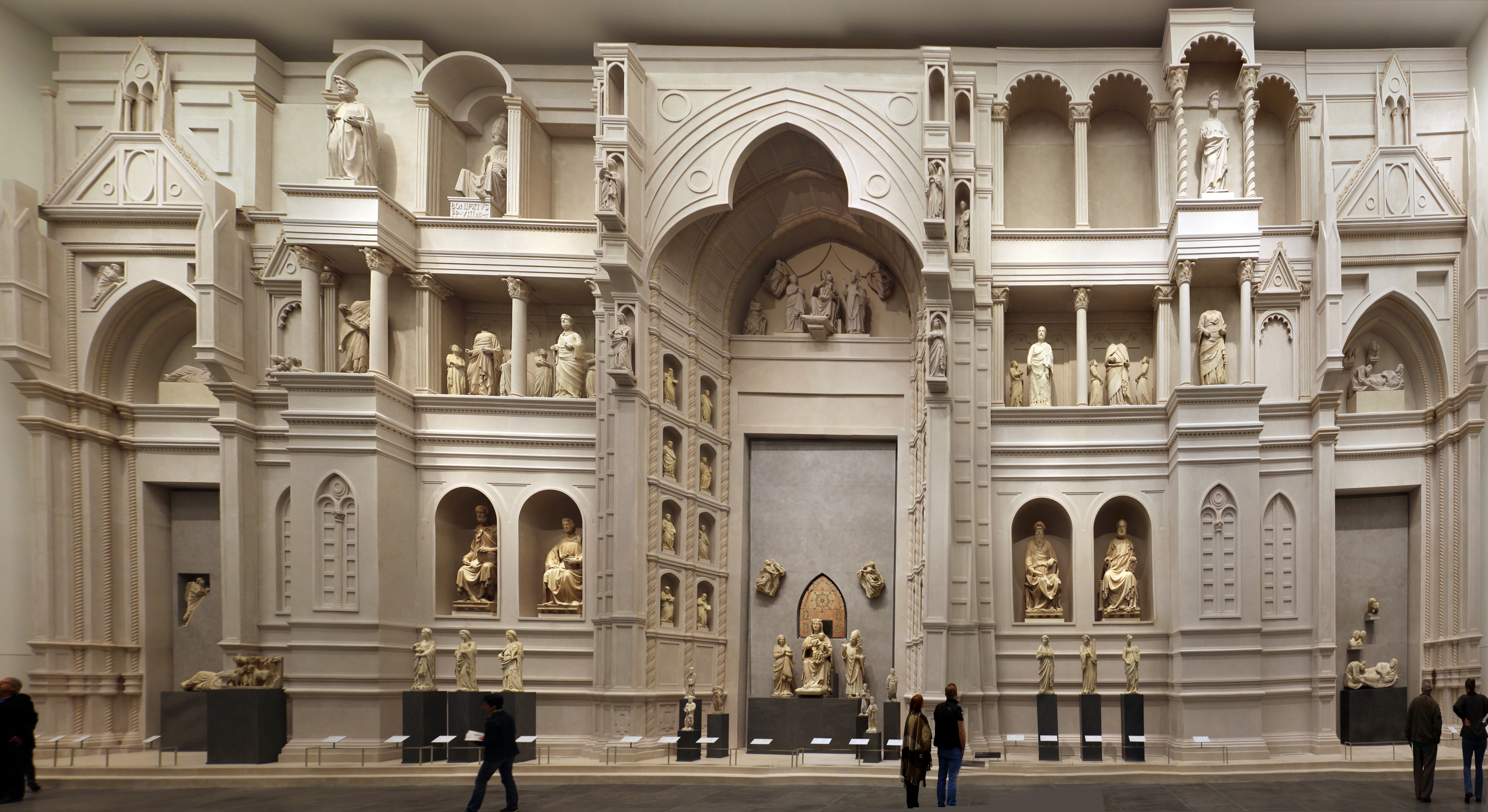 Santa Maria del Fiore (Florence) - First facade